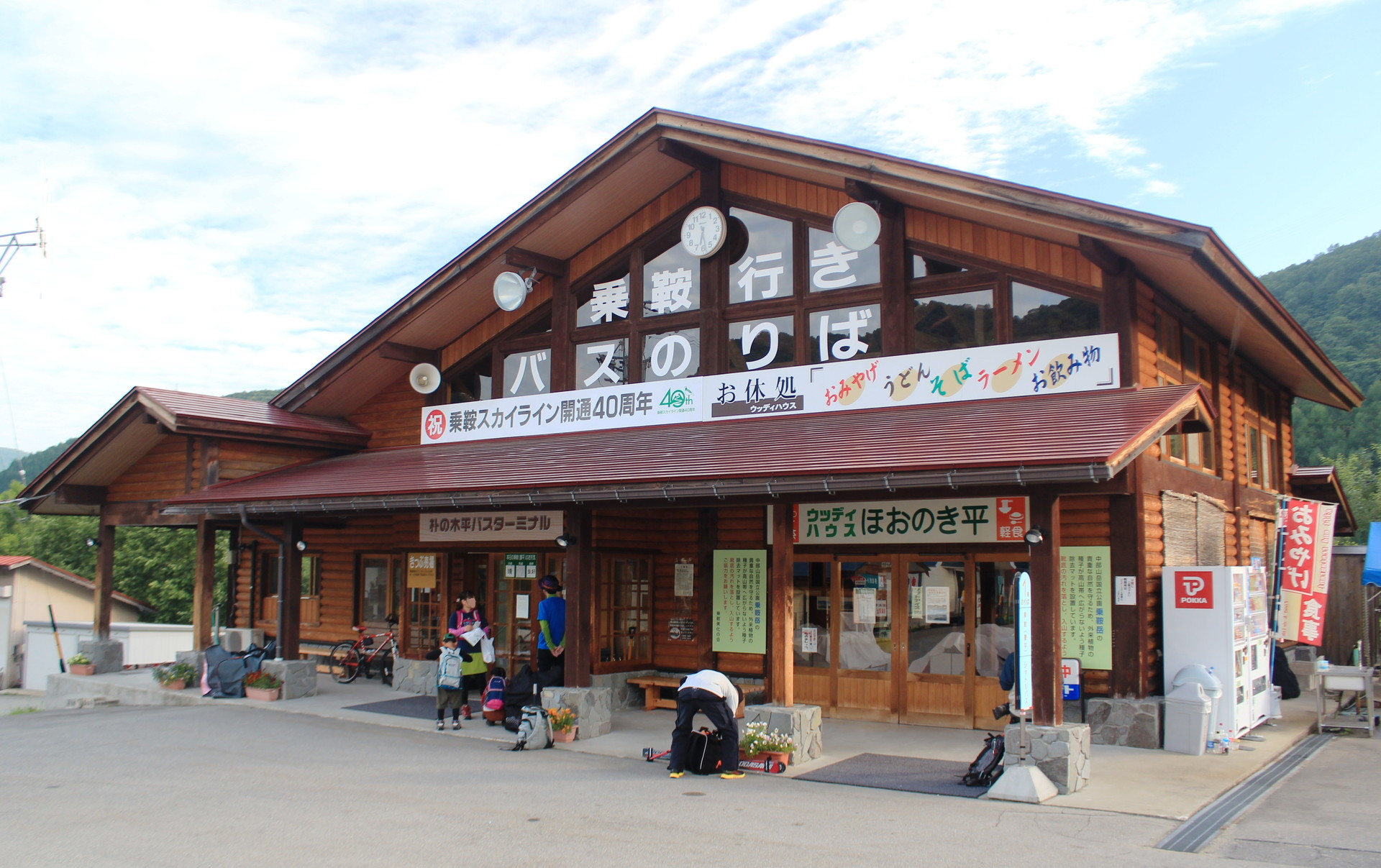 Honokidaira bus terminal, in Takayama Gifu pref., Japan.